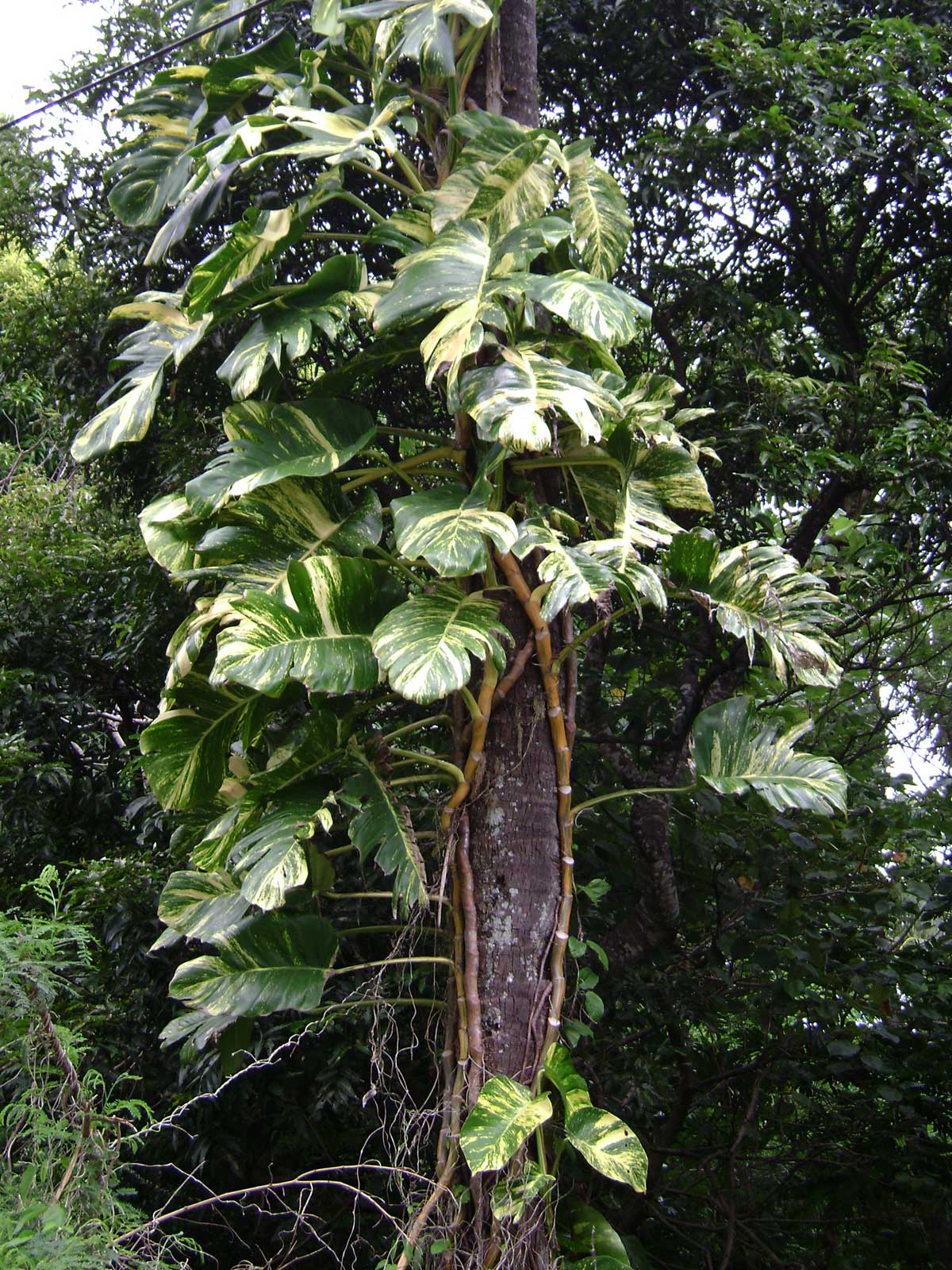 Epipremnum pinnatum, (alu) on Tongatapu, indented and variegated form